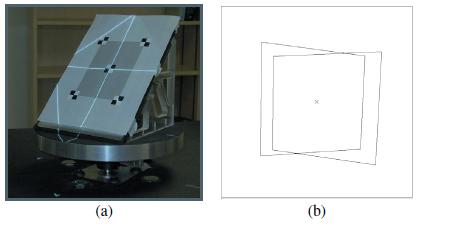 marcadores utilizados para la determinación de la matriz de proyección